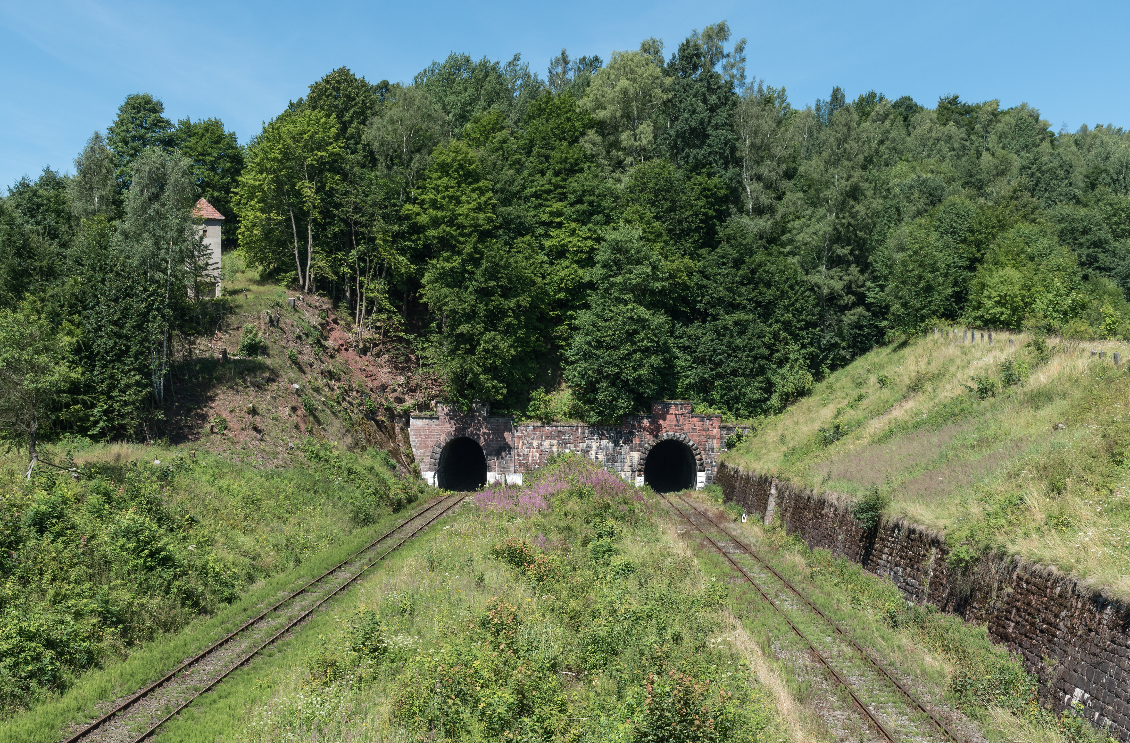 Świerkowa Kopa, Góry Sowie, Sudetes